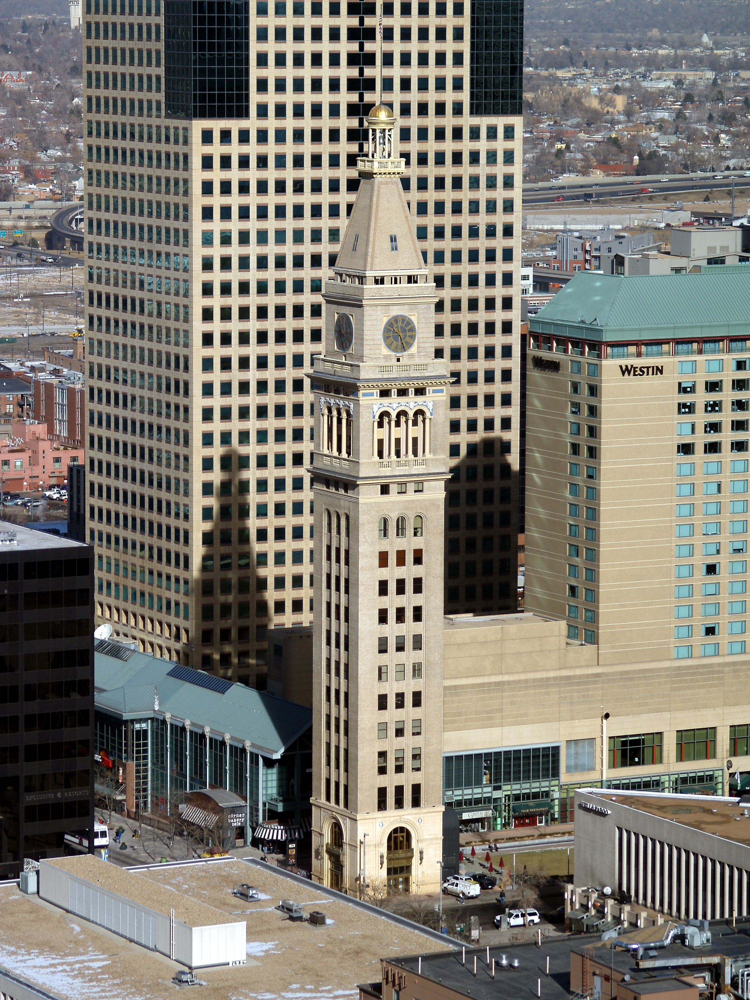 The Daniels & Fisher Tower, located at the intersection of Arapahoe Street and the 16th Street Mall in Denver, Colorado, United States.